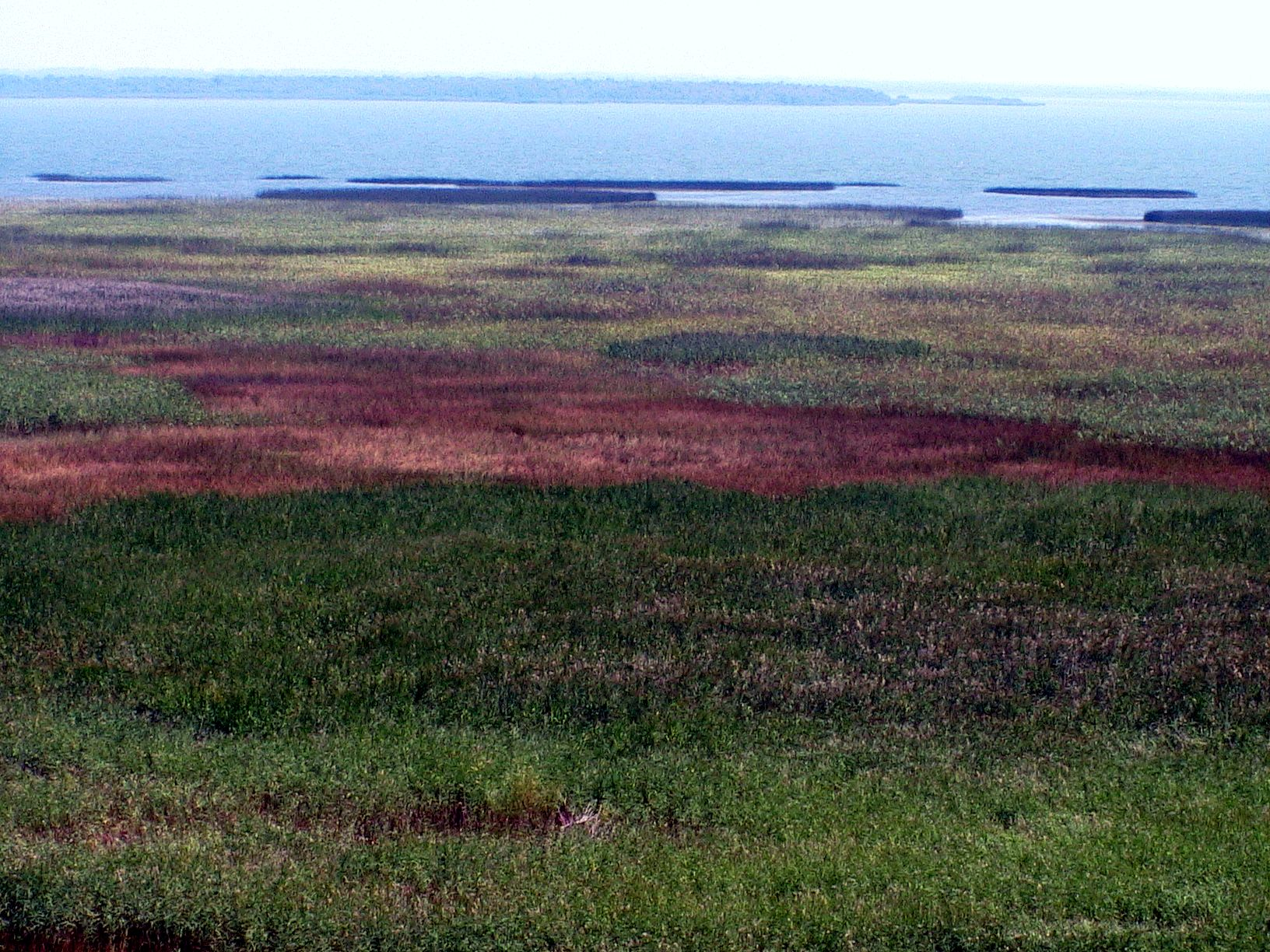 At the Lake of Skadar, Montenegro.